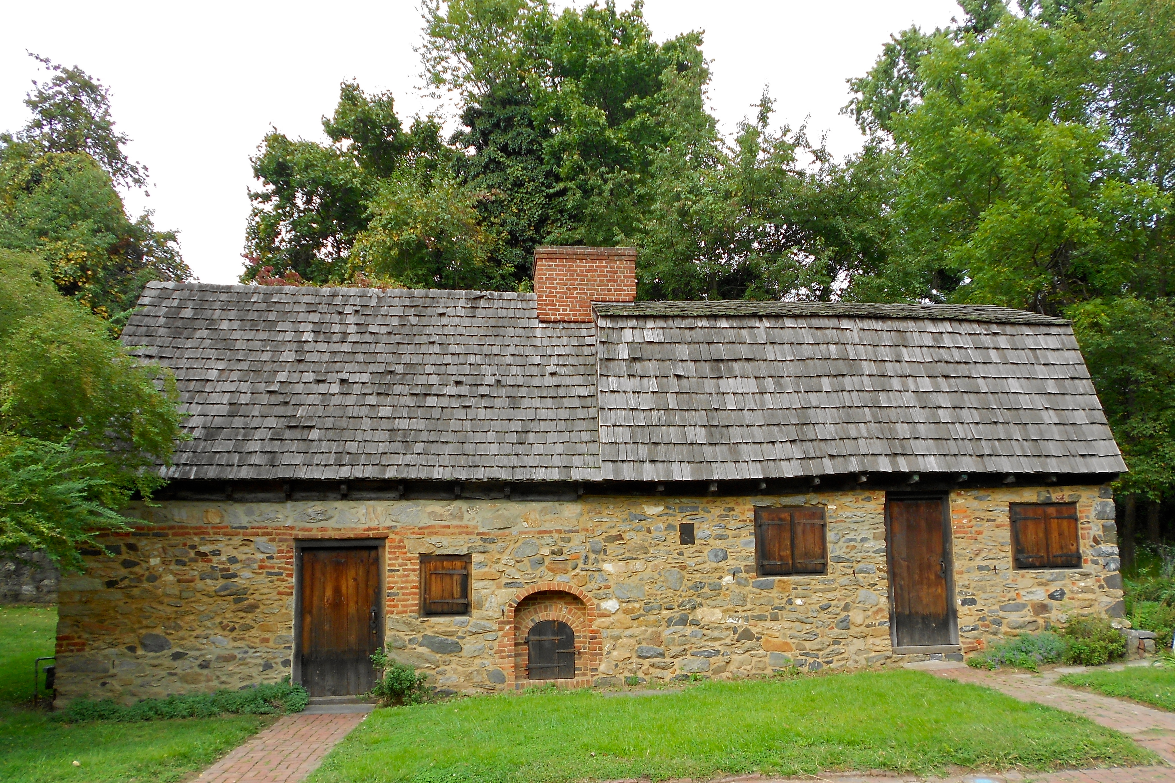 Caleb Pusey House oldest English built house in Pennsylvania. Only standing house in PA where it is documented that Wm Penn visited. Built 1683.